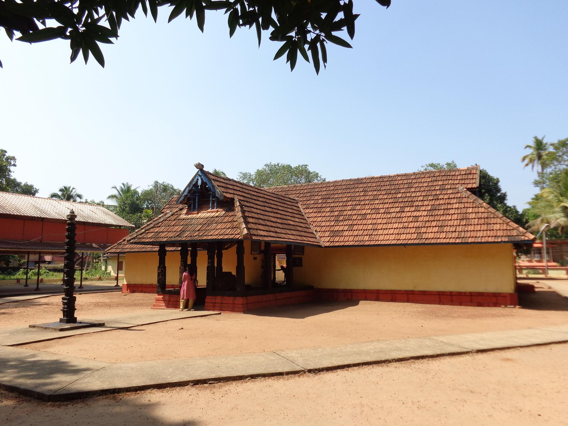 mattam narasimhaswami temple, mavelikara view from front